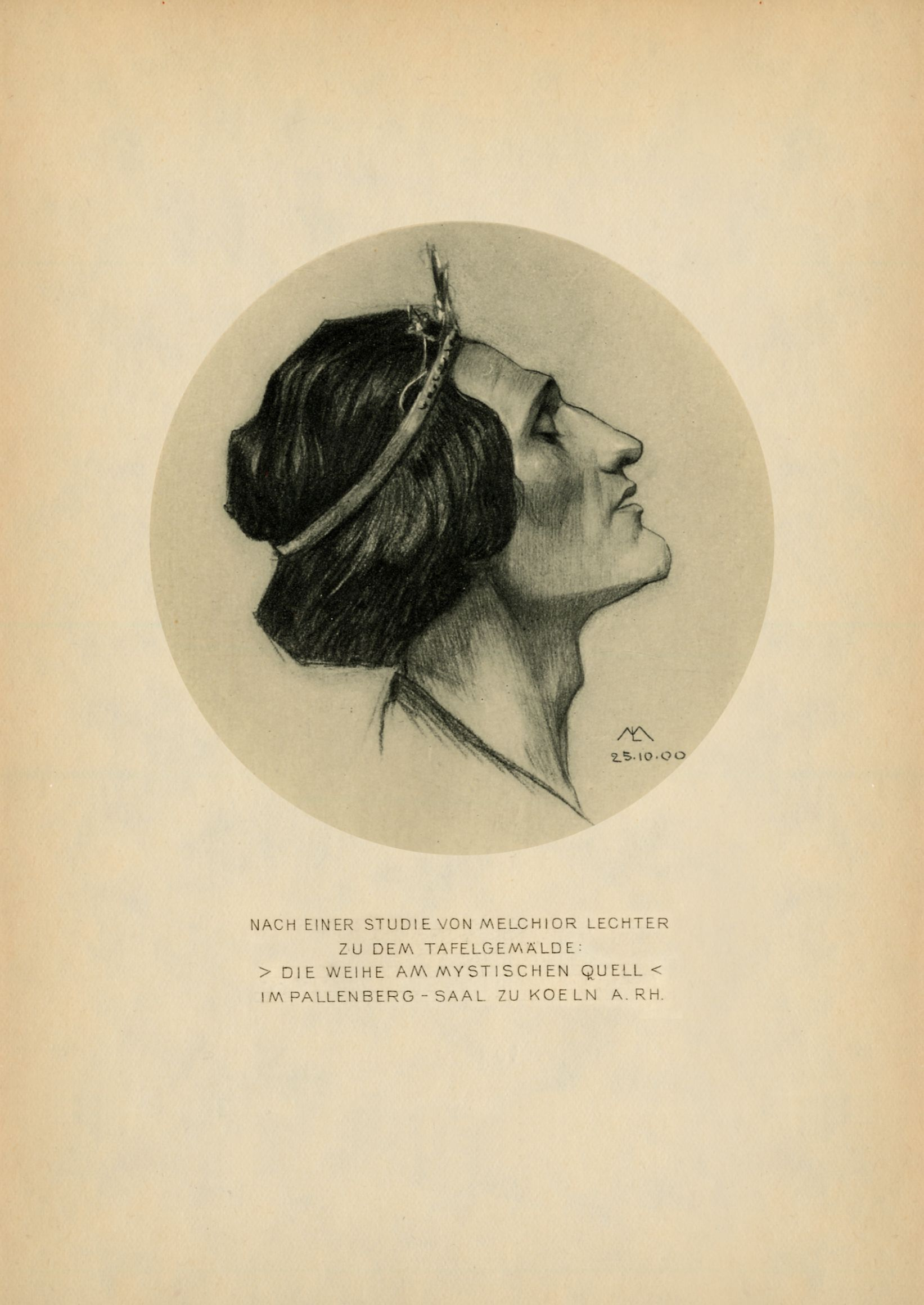 Bild nach einer Studie von Melichior Lechter zum zerstörten Tafelgemälde "Die Weihe am mystischen Quell", bis 1944 im Pallenbergsaal des Museum für Angewandte Kunst Köln.